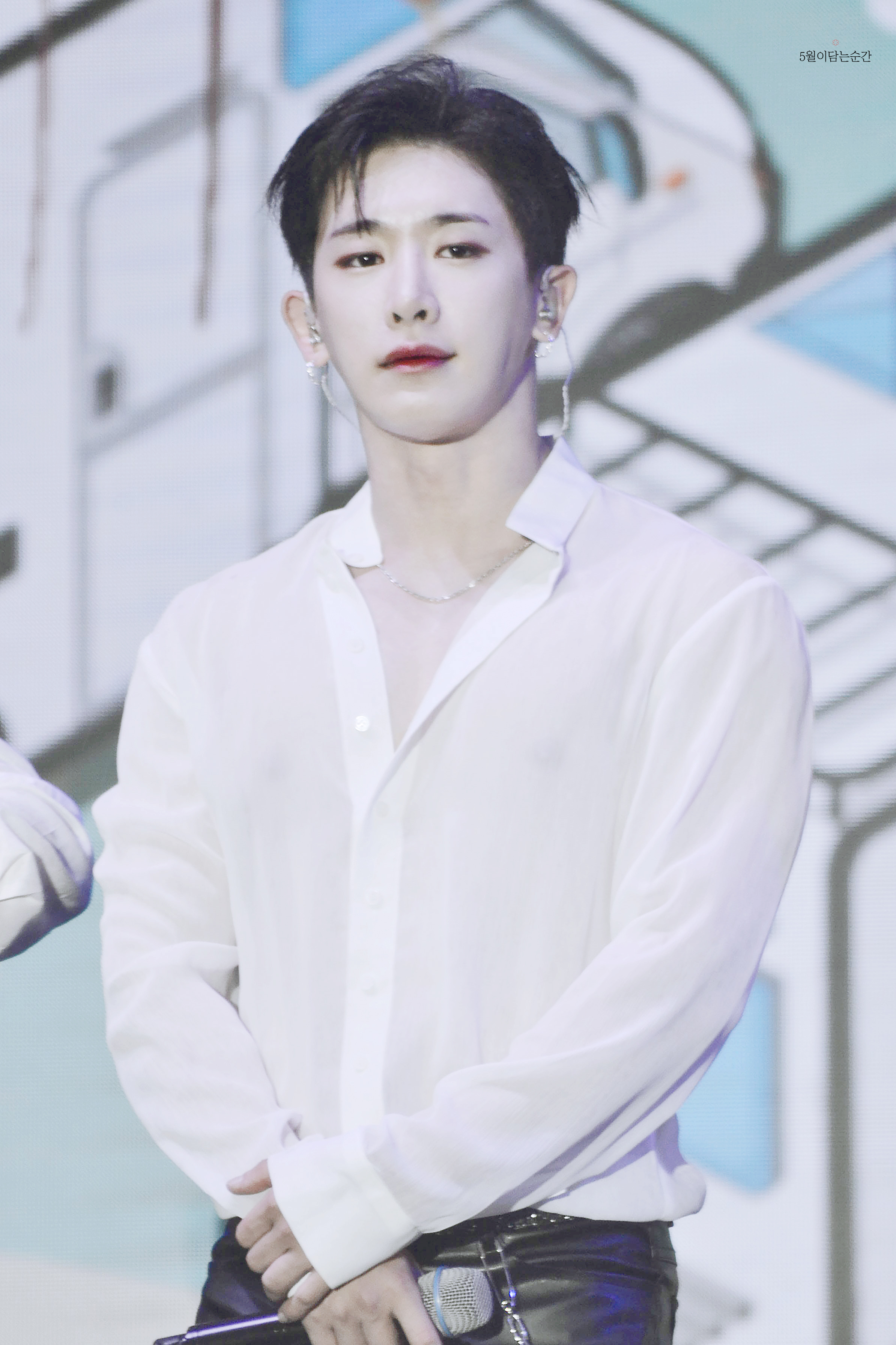 190519 AFMF